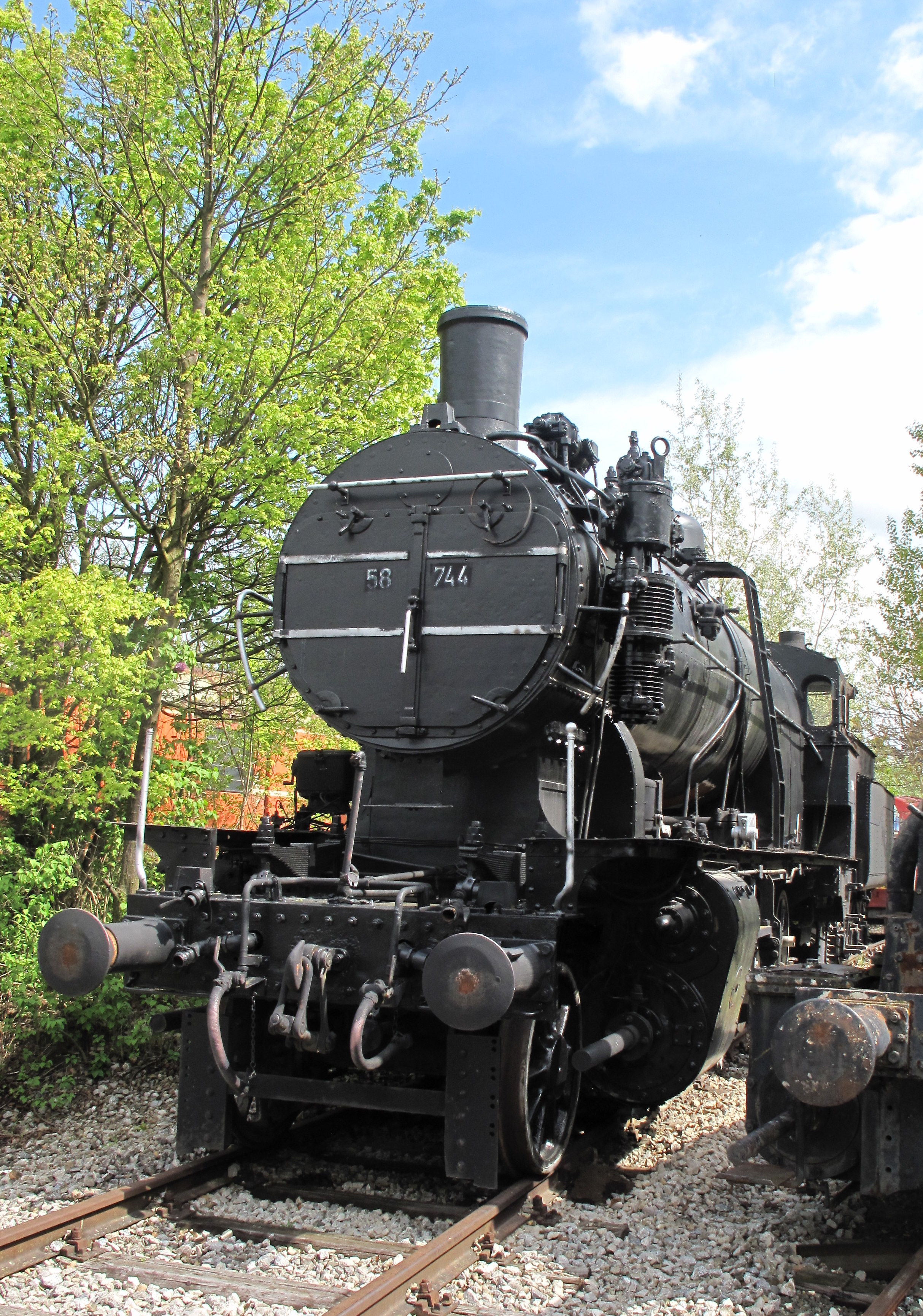 ÖBB 2-10-0 locomotive 58.744 (ex BBÖ 81.44) at Heizhaus